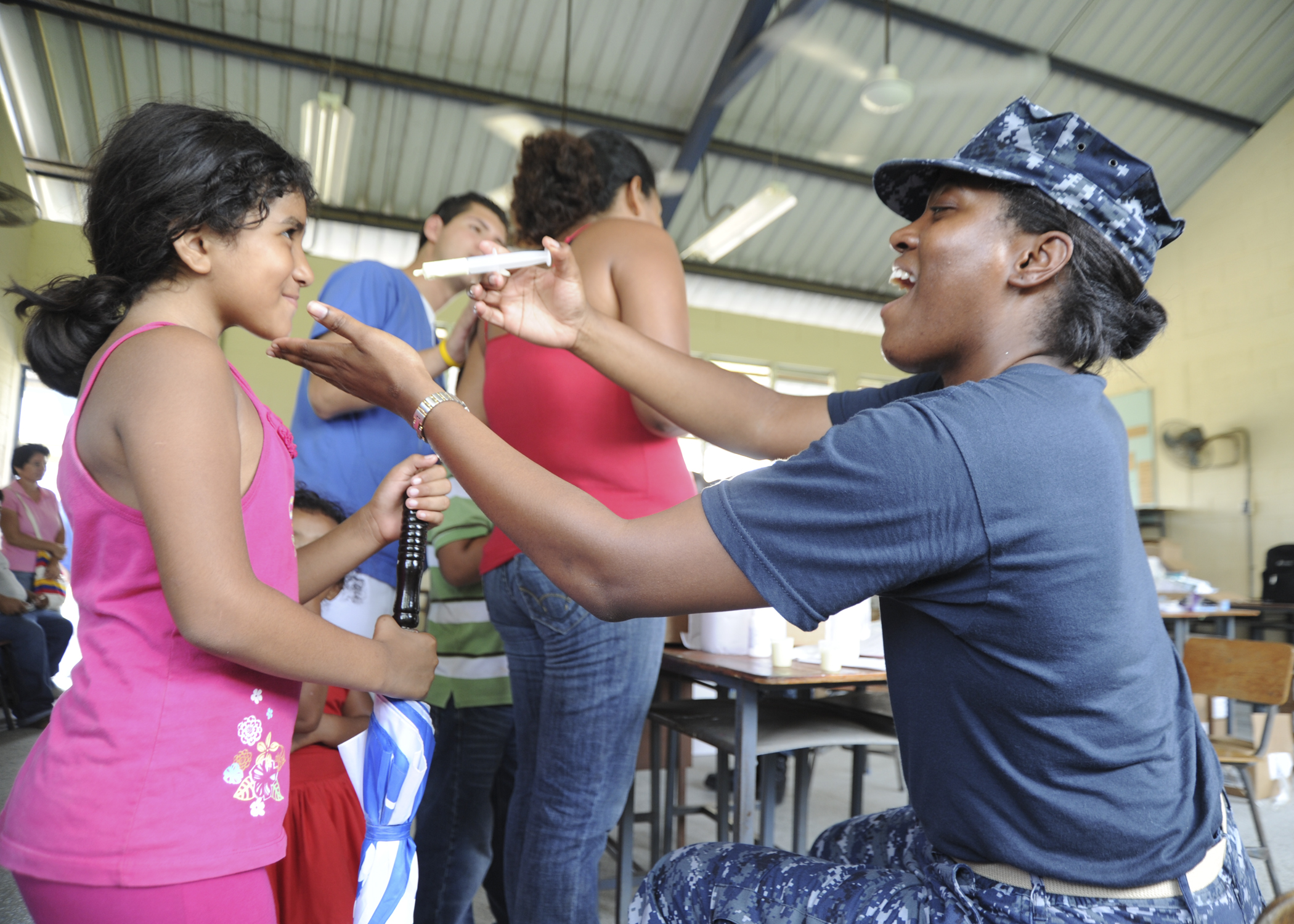 PUERTO BARRIOS, Guatemala (Sept. 8, 2010) Lt. Kristal Smith, from Jacksonville, Fla., assigned to the multi-purpose amphibious assault ship USS Iwo Jima (LHD 7), gives dewormer medication to children during clinic hours at the pediatric center in Guatemala. Iwo Jima is off the coast of Guatemala supporting Continuing Promise 2010, a humanitarian and civic assistance mission. The assigned medical and engineering staff embarked aboard Iwo Jima are working with partner nation's teams to provide medical, dental, veterinary, engineering assistance to eight nations. (U.S. Navy photo by Mass Communication Specialist 1st Class Christopher B. Stoltz/Released)